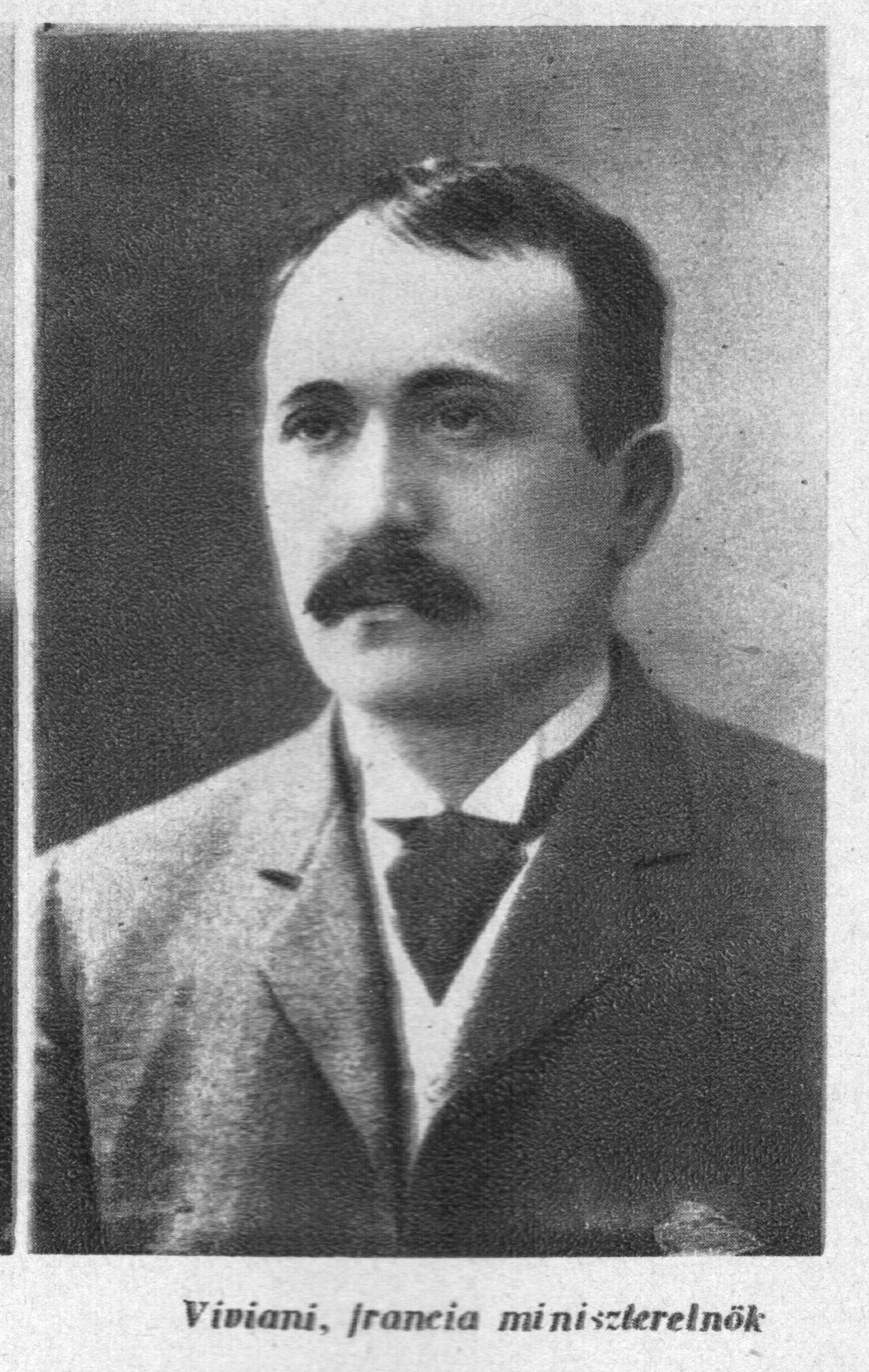 René Viviani was a French politician of the Third Republic, who served as Prime Minister for the first year of World War I.